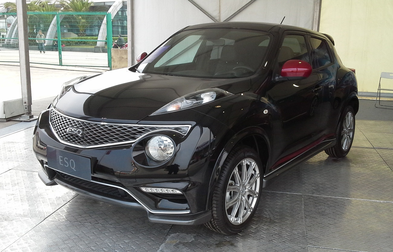 Infiniti ESQ photographed in Anting, Shanghai municipality, China.